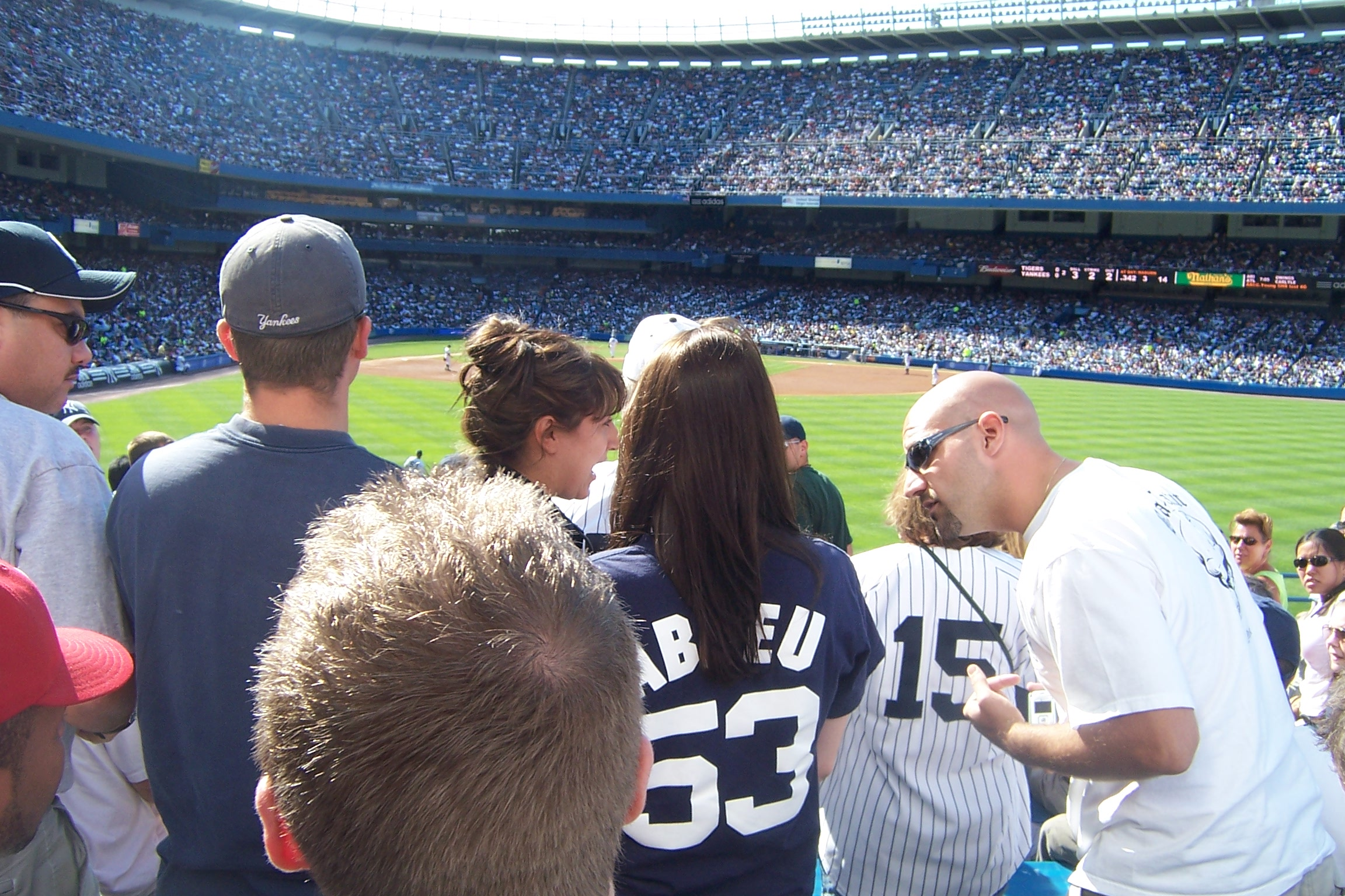 Scene from the Bleacher Creatures section at Yankee Stadium. 'Bald Vinny' is about to be thrown out of the stadium for the second time that day by Security.